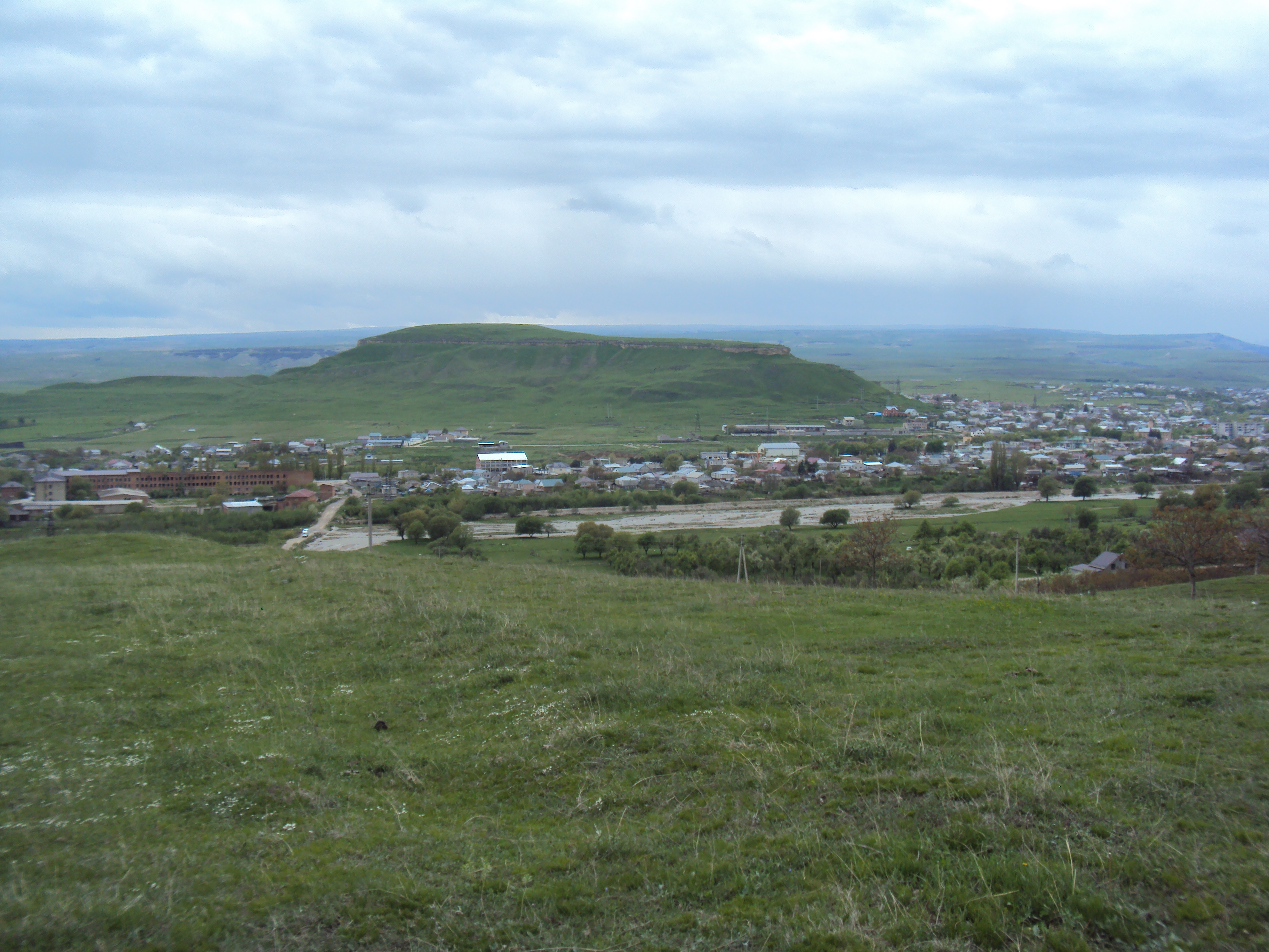 Rome mountain , malokaratchaevsky district. On top of this mountain in ancient times was a fortress of the Byzantines (rums). Over time, rum mountain was transformed into a rim - mount.